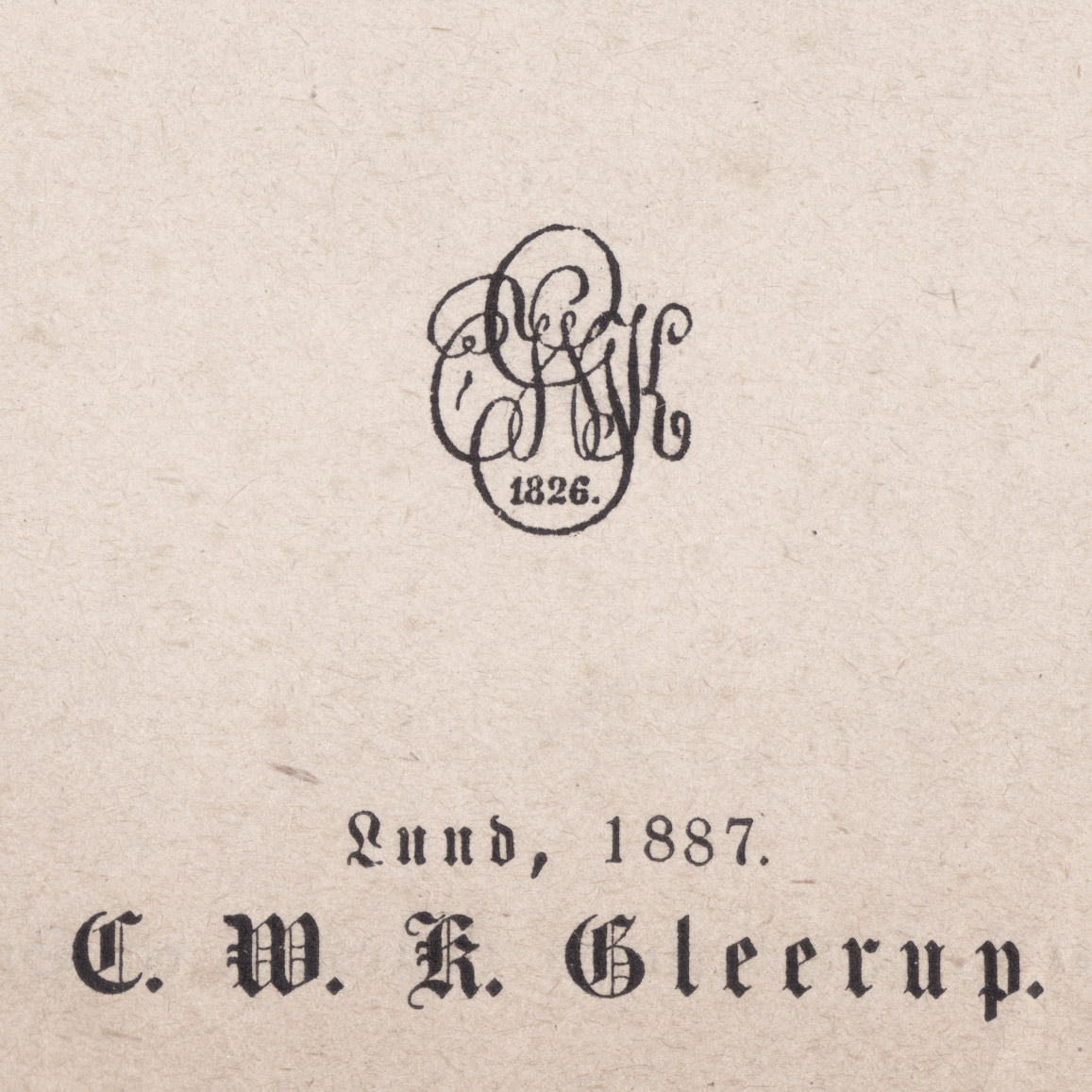 C.W.K. Gleerup emblem 1887